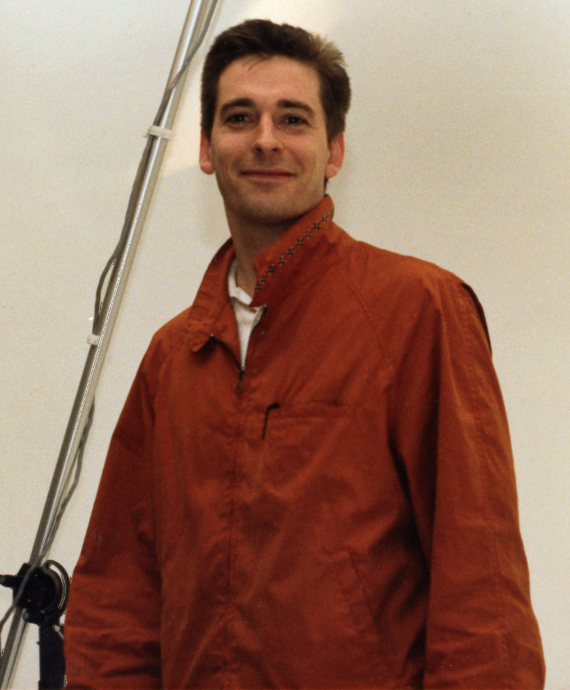 Greg Roberts of Big Audio Dynamite, after the band's show in Santa Cruz, California - March 14, 1987